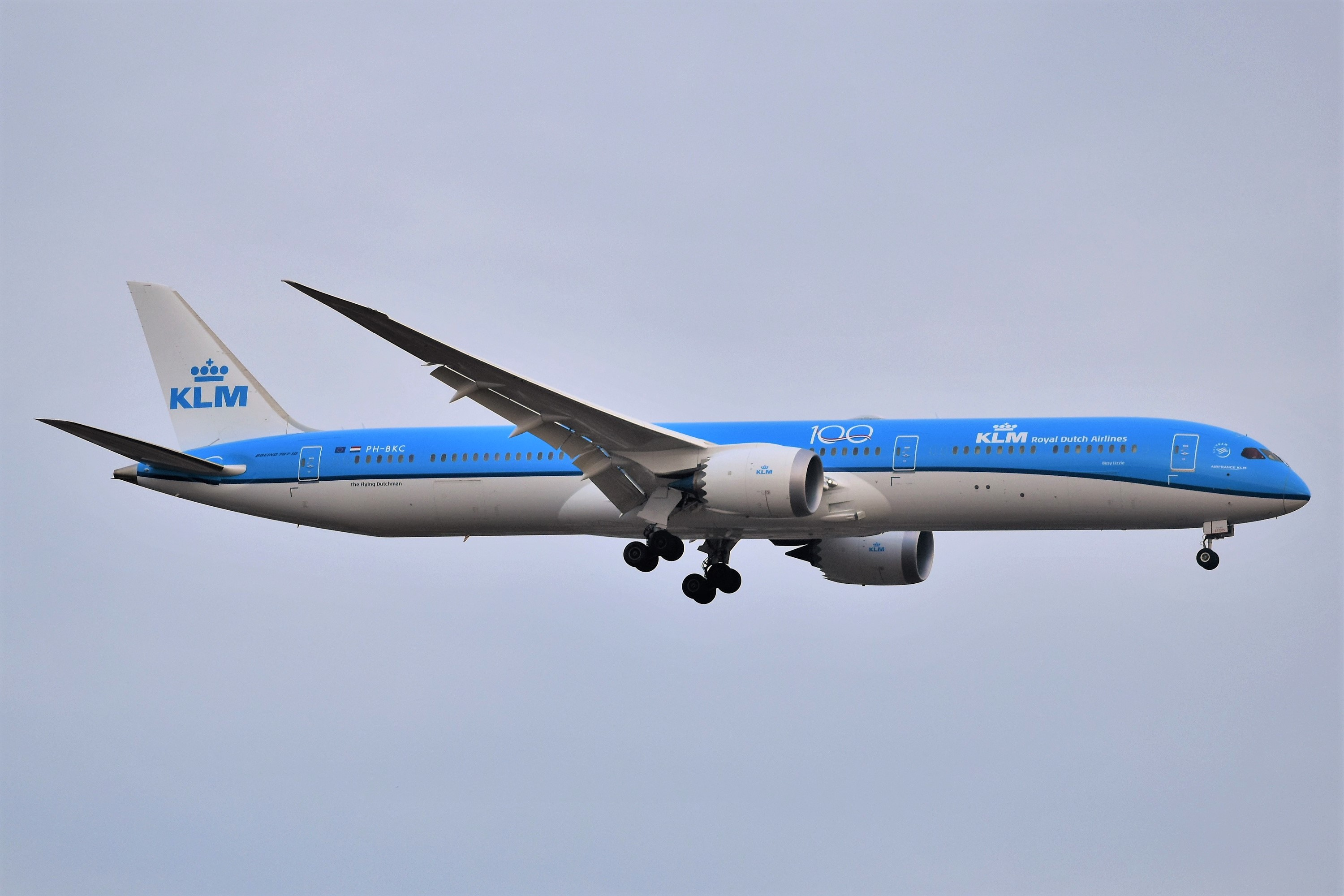 A KLM 787-10 Dreamliner is on final approach to John F. Kennedy International Airport, arriving from Amsterdam Airport Schipol as Flight KL641/KLM641.